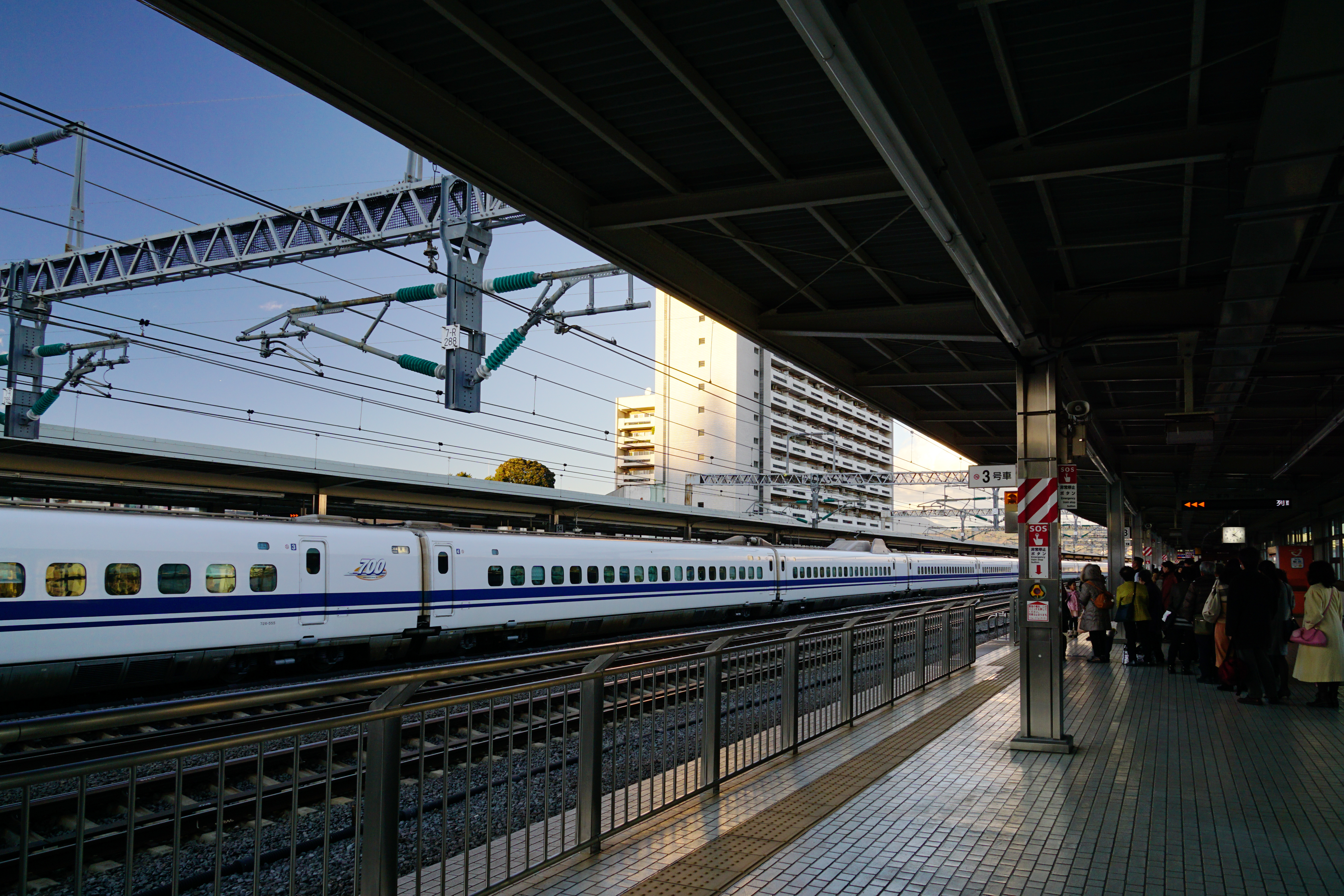 Odawara Station in Odawara, Kanagawa Prefecture, Japan